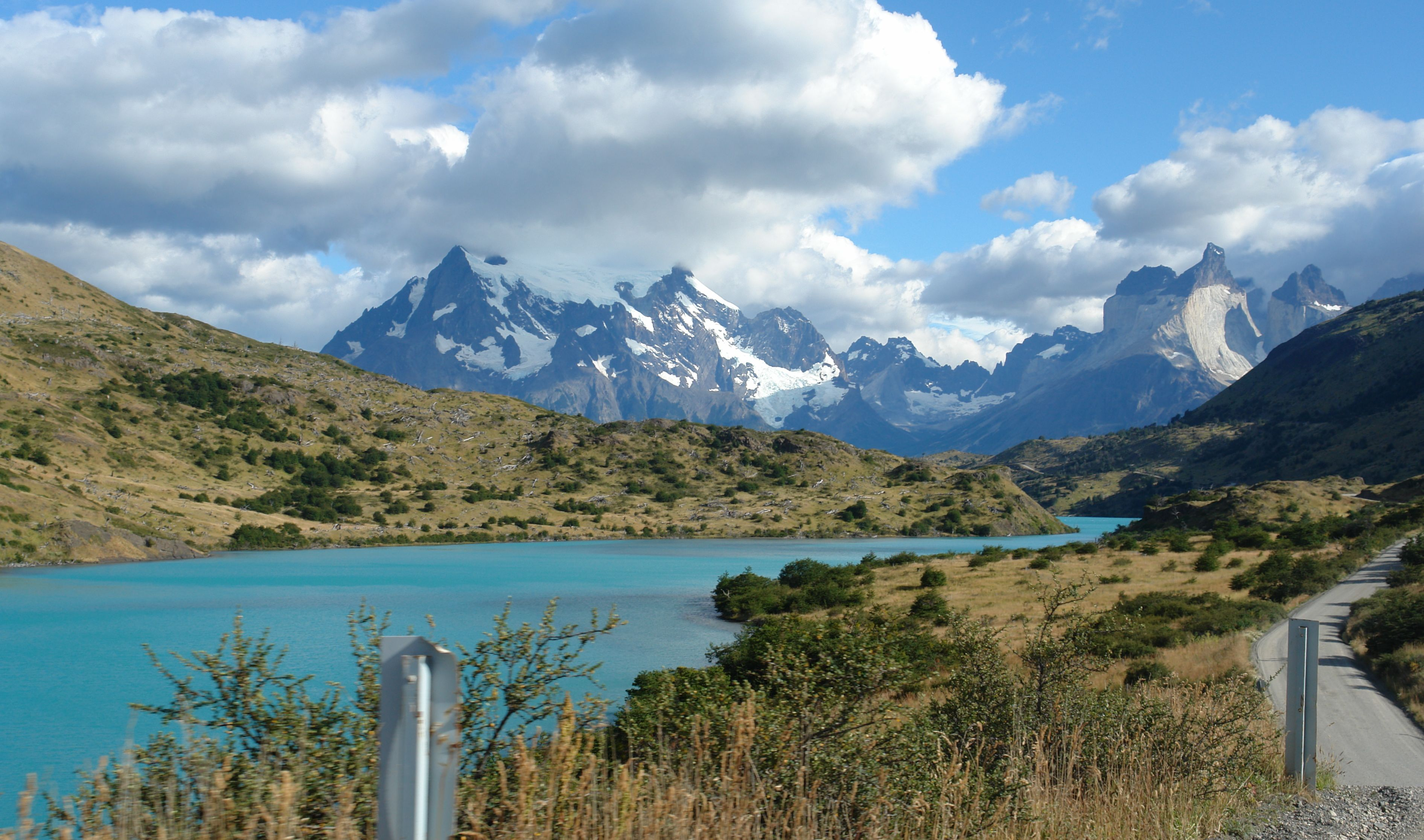 Early in the morning we had magnificent weather conditions and less dust raising traffic.